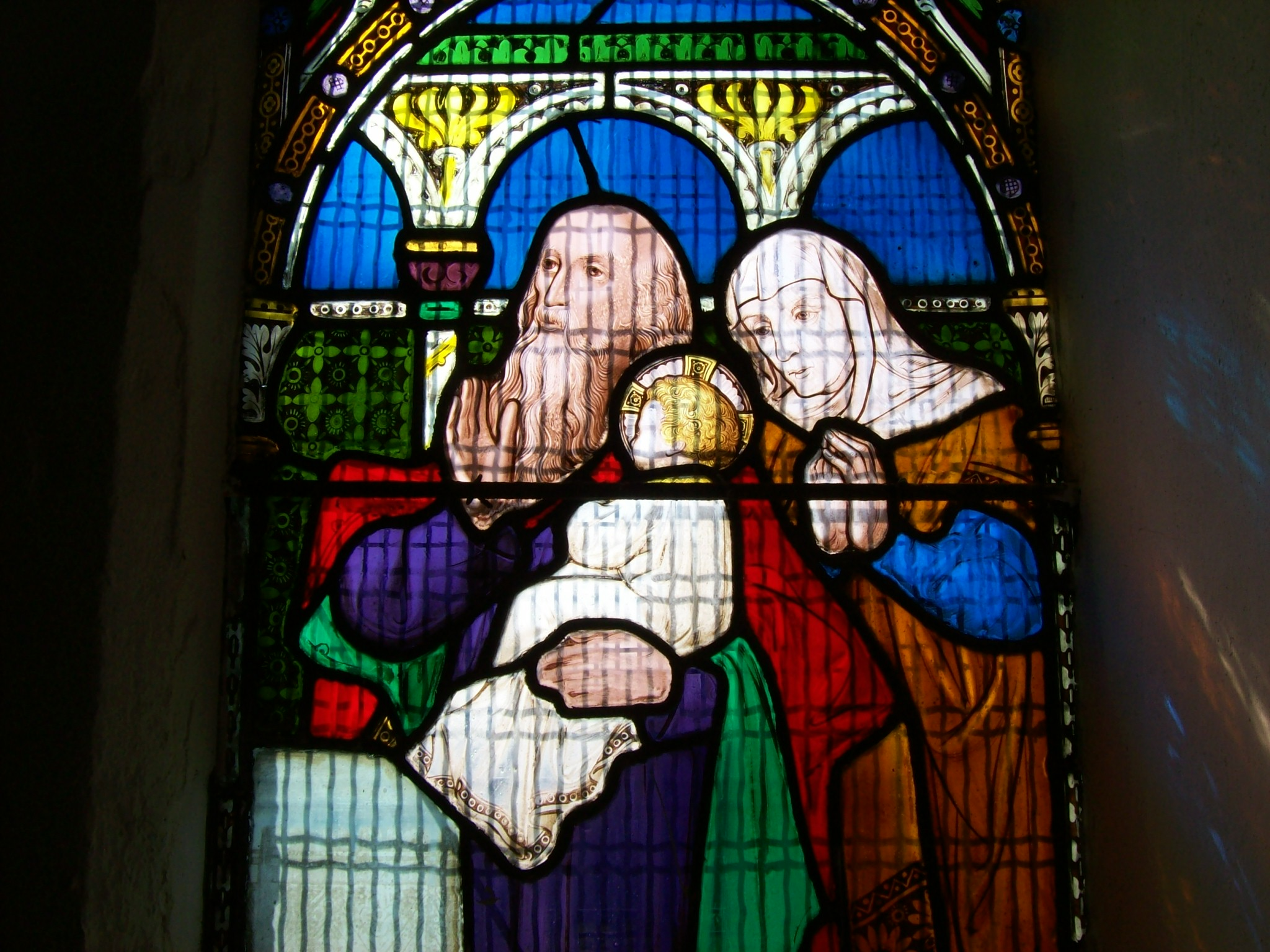 19th c. stained glass, St Thomas, Friamere: Simeon, Anna and the Infant Jesus. "Nunc Dimittis"